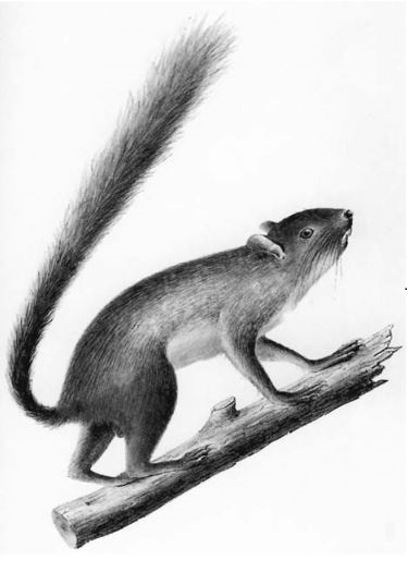 Sciurus langsdorffii (? syn. of S. spadiceus) from the original description by Brandt (1835)